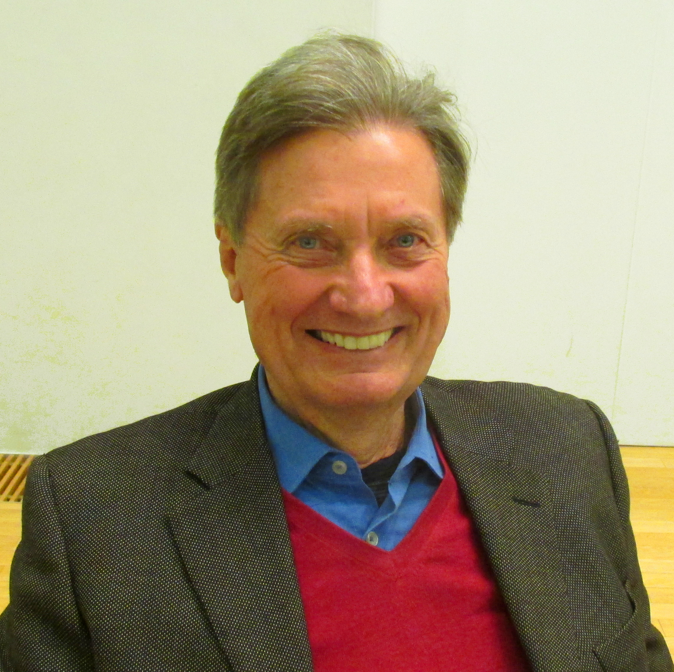 Peter Eisenberg at the university, Giessen, Germany check usage